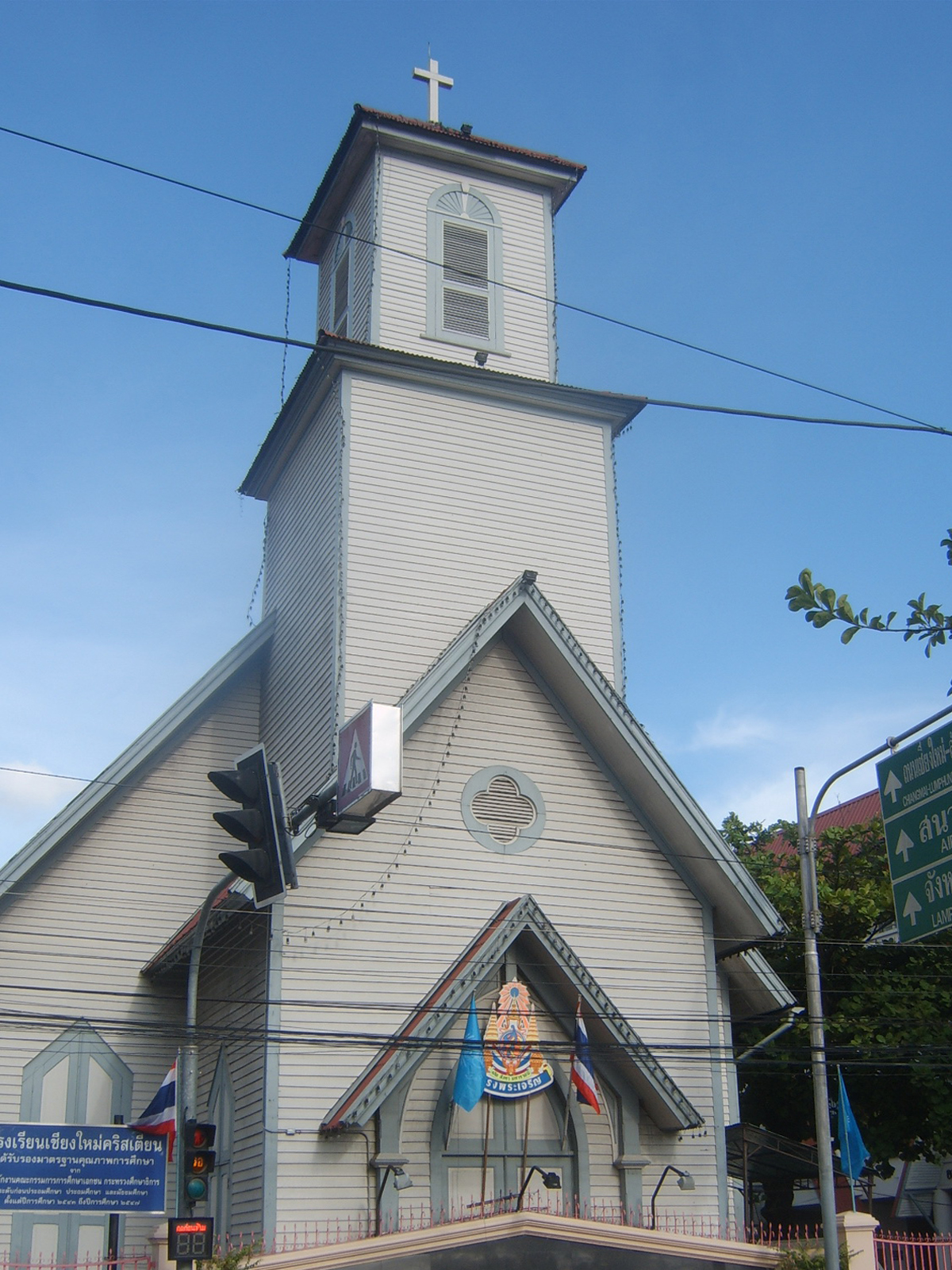 The Church of Chiang Mai Christian School. This was the original church building for First Church Chiang Mai and was repurposed as a school chapel after the congregation of First Church built a new building up the road in 1969